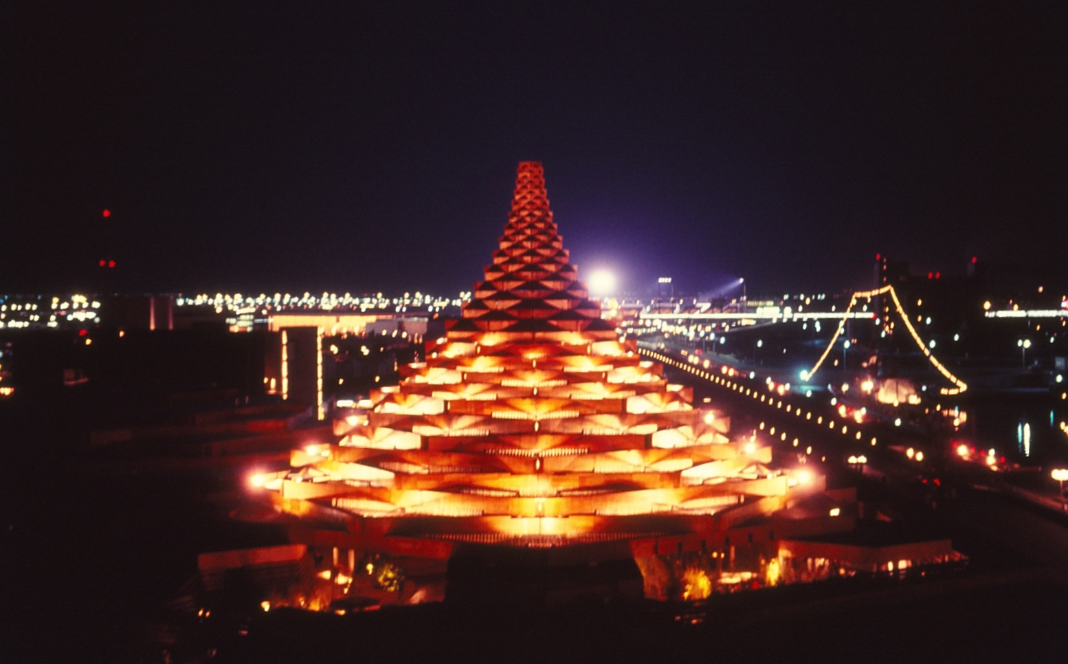 Man in the Community, a thematic pavilion in the Cité du Havre. Expo 67, Montreal, Quebec, Canada, 1967.